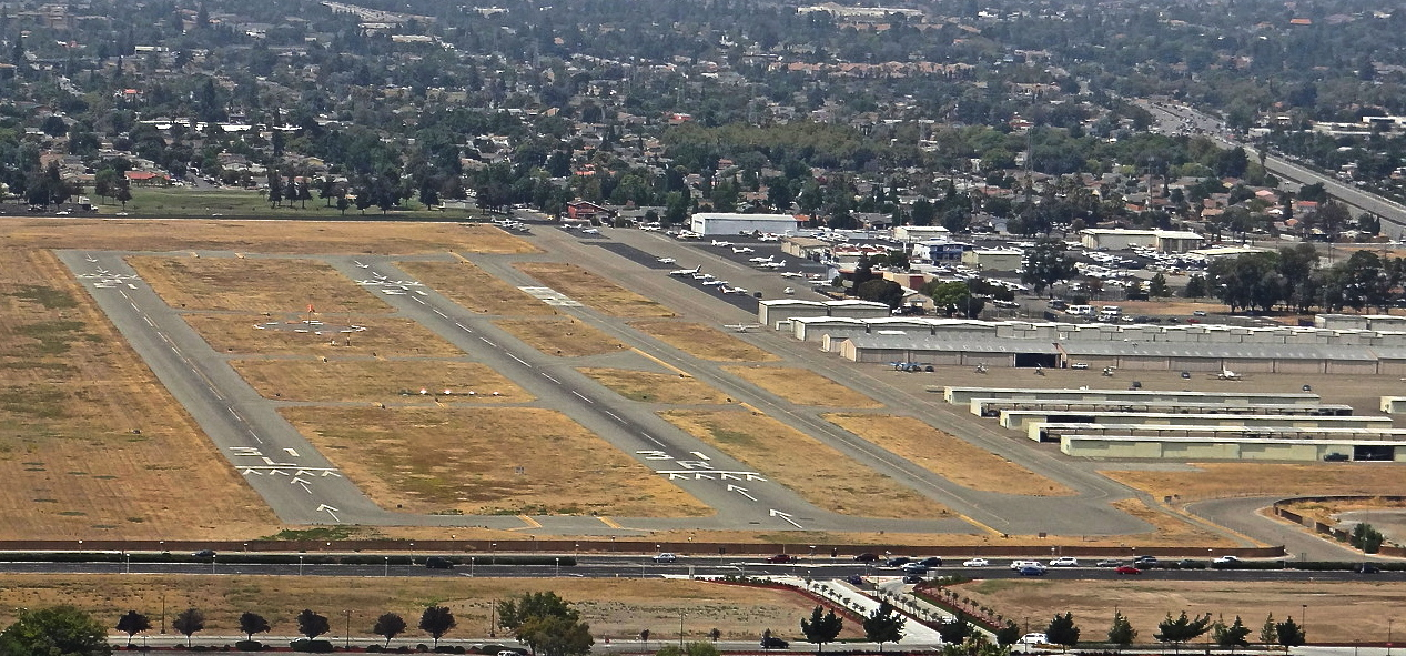 On final to 31R at Reid Hillview Airport.